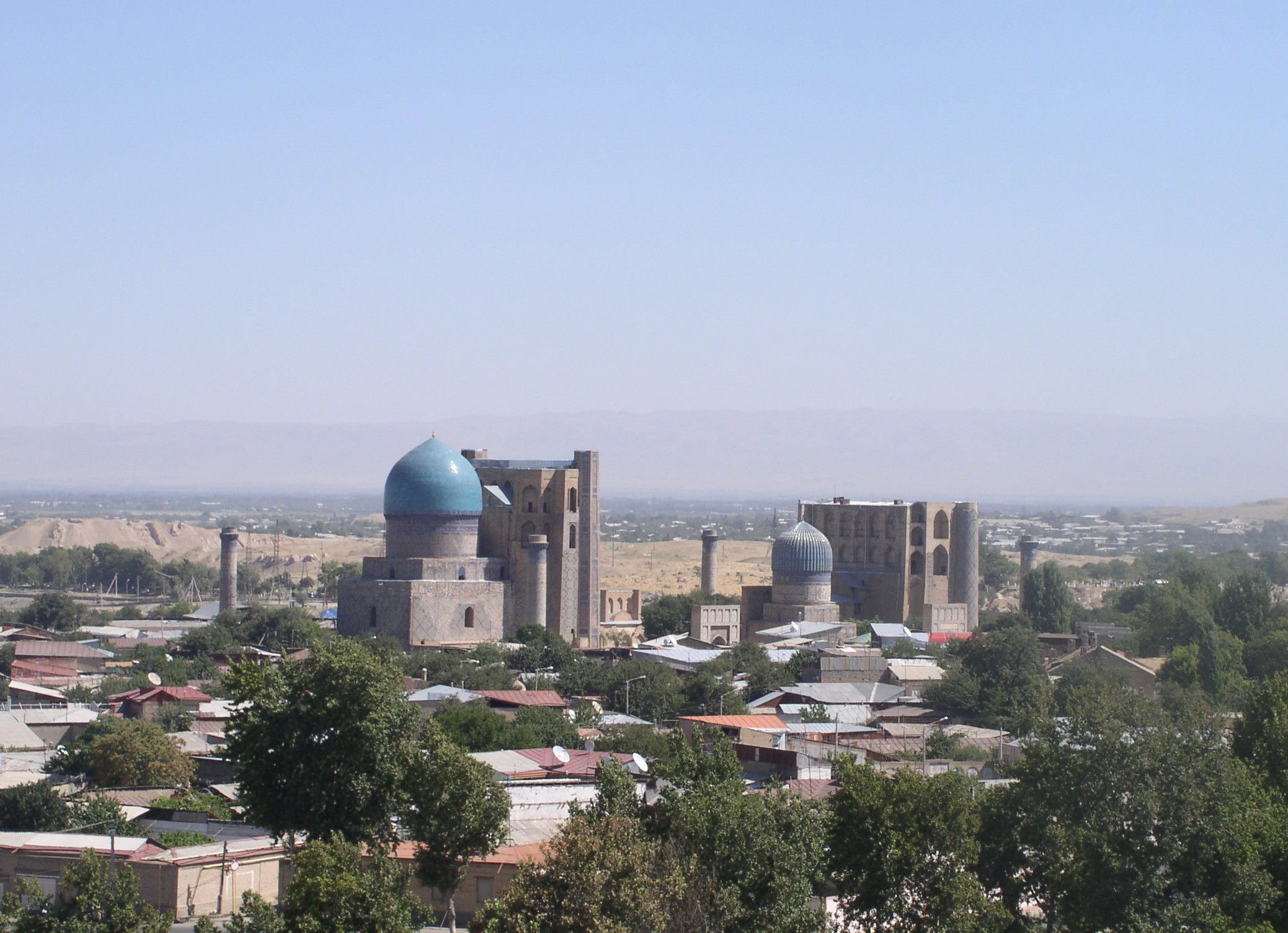 View of the Bibi-Khanym Mosque — in Samarqand, Uzbekistan. The photo is taken from the minaret of the Ulugh-beg madrassa